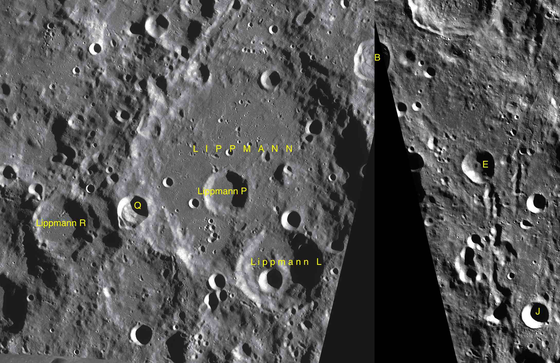 Parts of the charts LAC-134, LAC-135 used for the presentation